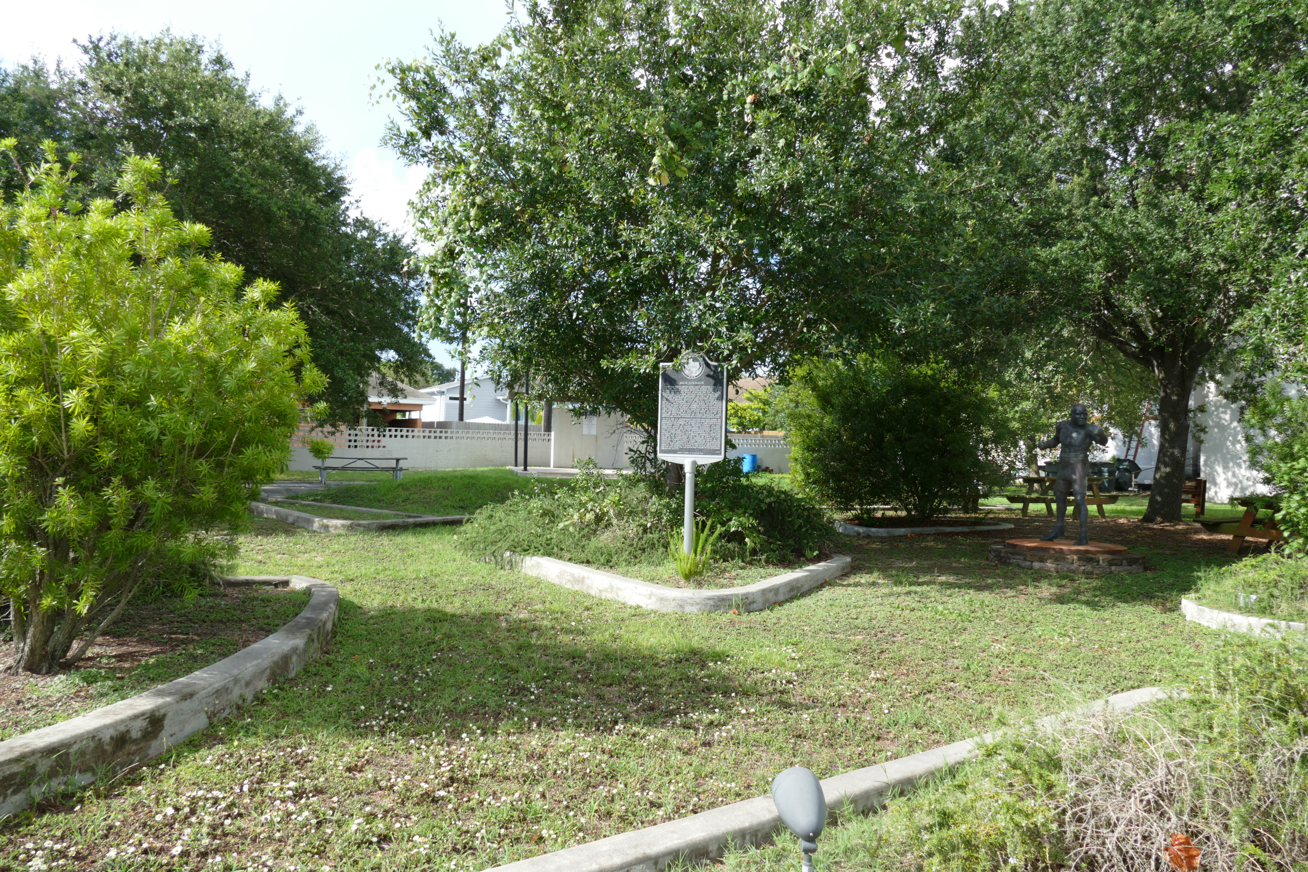 Galveston native Arthur John "Jack" Johnson (1878-1946) was the first African American World Heavyweight Boxing Champion. He grew up in Galveston's East End and honed his fighting skills working on the wharves. During the 1900 storm, Johnson helped his family escape from their home on Broadway. In 1901, he refined his defensive skills with the help of Joe Choynski while in jail for illegal boxing. Johnson won the "Colored World Heavyweight Champion" title in 1903 but was determined to defeat white titleholder Tommy Burns. Though Burns initially refused the match, Johnson pursued him around the world until he finally agreed to fight in Australia in 1908. Johnson's technical knockout in the 14th round led to a search for a "Great White Hope" to retake the title. He defended his title in the 1910 "Fight of the Century" with a knockout of former champion James Jeffries. His victory spawned both riots and celebrations. In 1912, the U.S. Government indicted Johnson under the Mann Act in an attempt to tarnish him and discourage his interracial relationships. He fled the U.S. and lived in exile for eight years. In 1915, Johnson fought his last important match in Havana, Cuba. Although younger, fitter and taller, Jess Willard needed 26 rounds to knock out Johnson and take the heavyweight title. Johnson finally surrendered to Federal authorities in 1920. While in prison, he obtained two patents. Johnson continued to fight but never again for a title. He spent his later years as an entertainer and exhibition fighter. A car crash on a North Carolina road ended his life at age 68. Johnson, "The Galveston Giant," pursued his ambitions against rigid notions of racial hierarchy in 20th century America. His refusal to submit to the social standards of his time has made him an important figure in the struggle for racial justice.